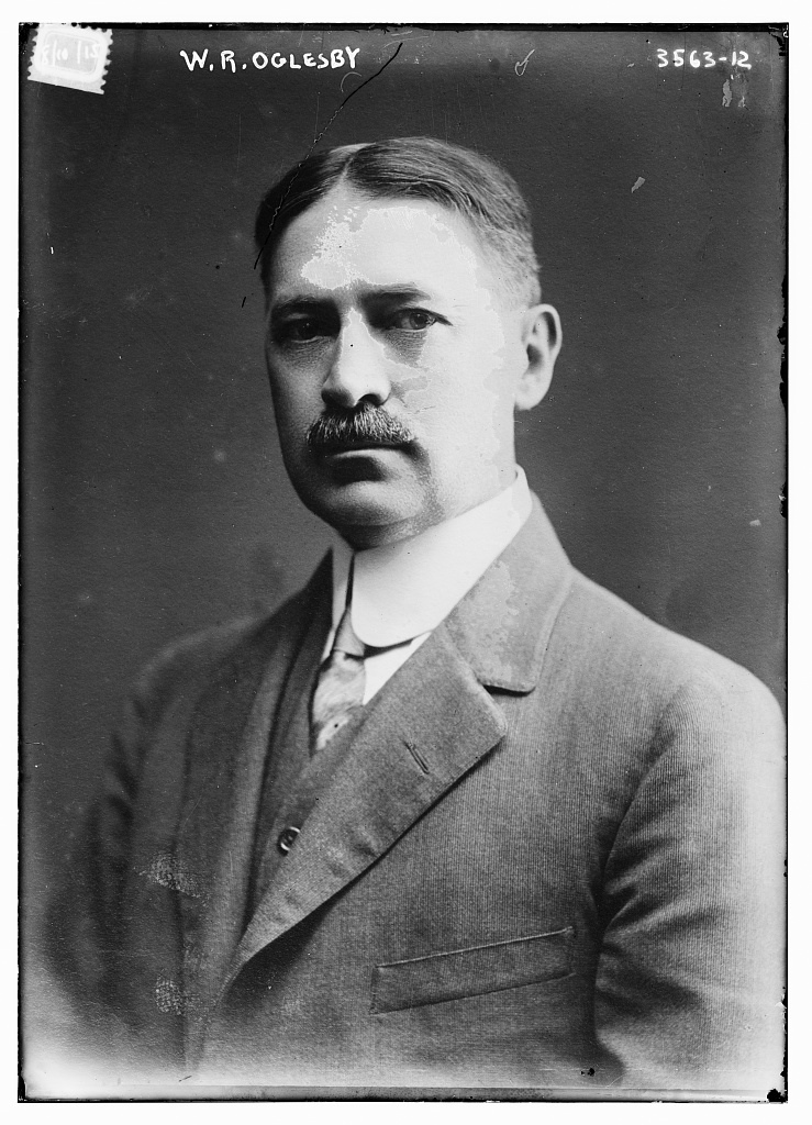 Woodson Ratcliffe Oglesby circa 1915